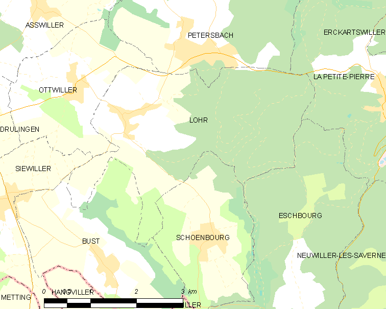 Map of French municipality